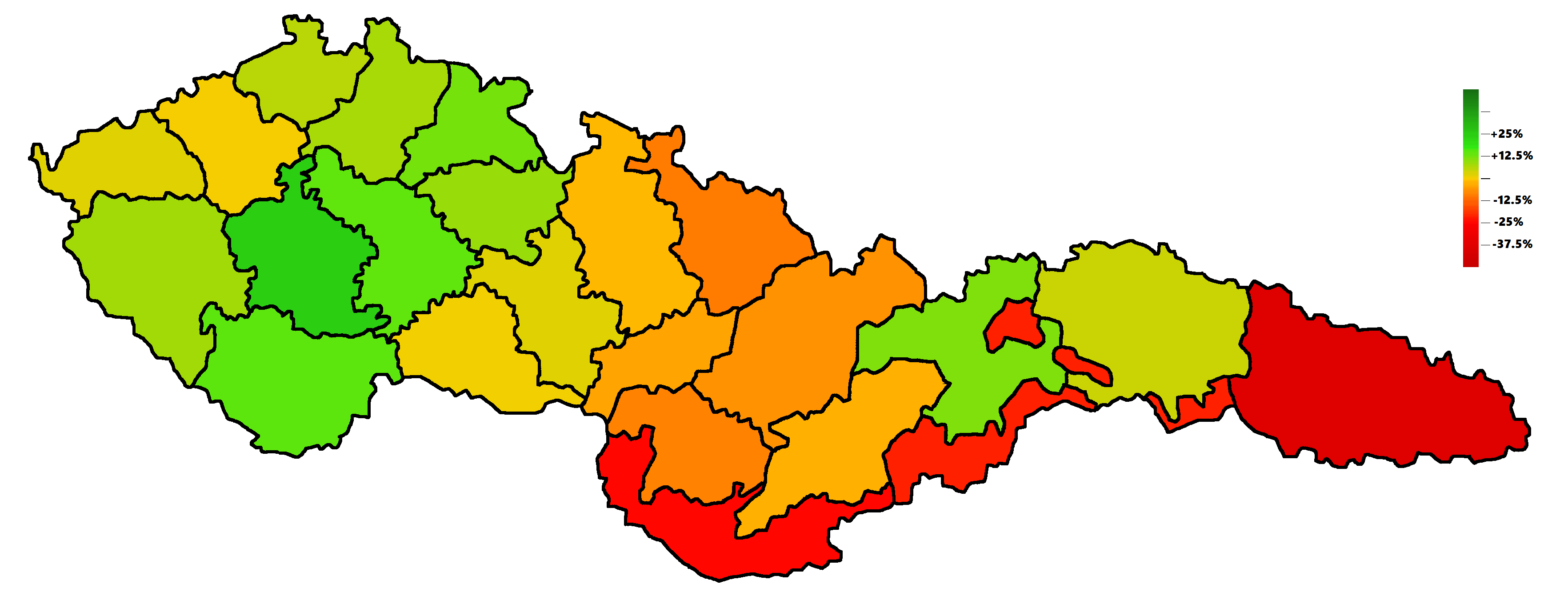 Map showing difference in percentage in variation from the average number of inhabitants per seat to the Czechoslovak Chamber of Deputies, using the 1930 census data (based on Balling, 1991, p. 247) Prague A 24,30 České Budějovice 14,66 Prague B 14,57 Hradec Králové 11,70 Lipt. Sv. Mikuláš 11,19 Pardubice 8,58 Plzeň 7,87 Ml. Boleslav 7,09 Česká Lípa 5,41 Prešov 3,94 Karlovy Vary 1,58 Brno 1,55 Jihlava -0,18 Louny -0,51 Olomouc -1,81 Báňská Bystrica -2,77 Uherské Hradiště -4,77 Turč. Sv. Martin -6,51 Trnava -8,97 Mor. Ostrava -9,87 Košice -21,81 Nové Zámky -24,91 Užhorod -38,55